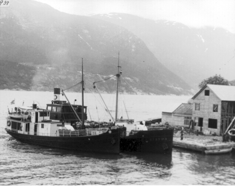 MS Granvin and MK Austli in Vallavik, Ulvik, Hardanger. 1943.